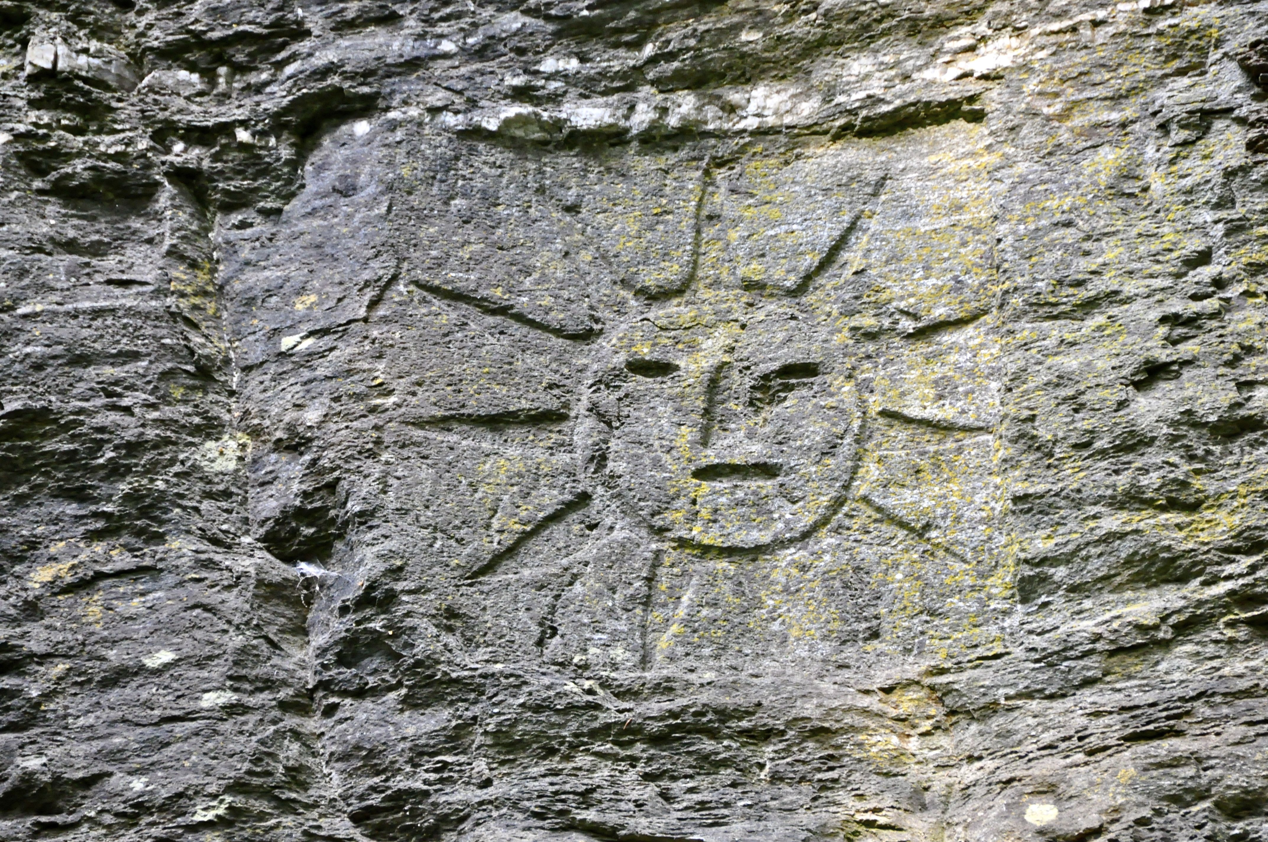 Mithras sanctuary (sun symbol engraved) on the “Brockenwand” (a rock wall) in Sankt Urban, municipality Sankt Urban, district Feldkirchen, Carinthia, Austria, EU